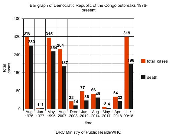 this is a graph which represents in total cases/death each outbreak in DRC since 1976-present